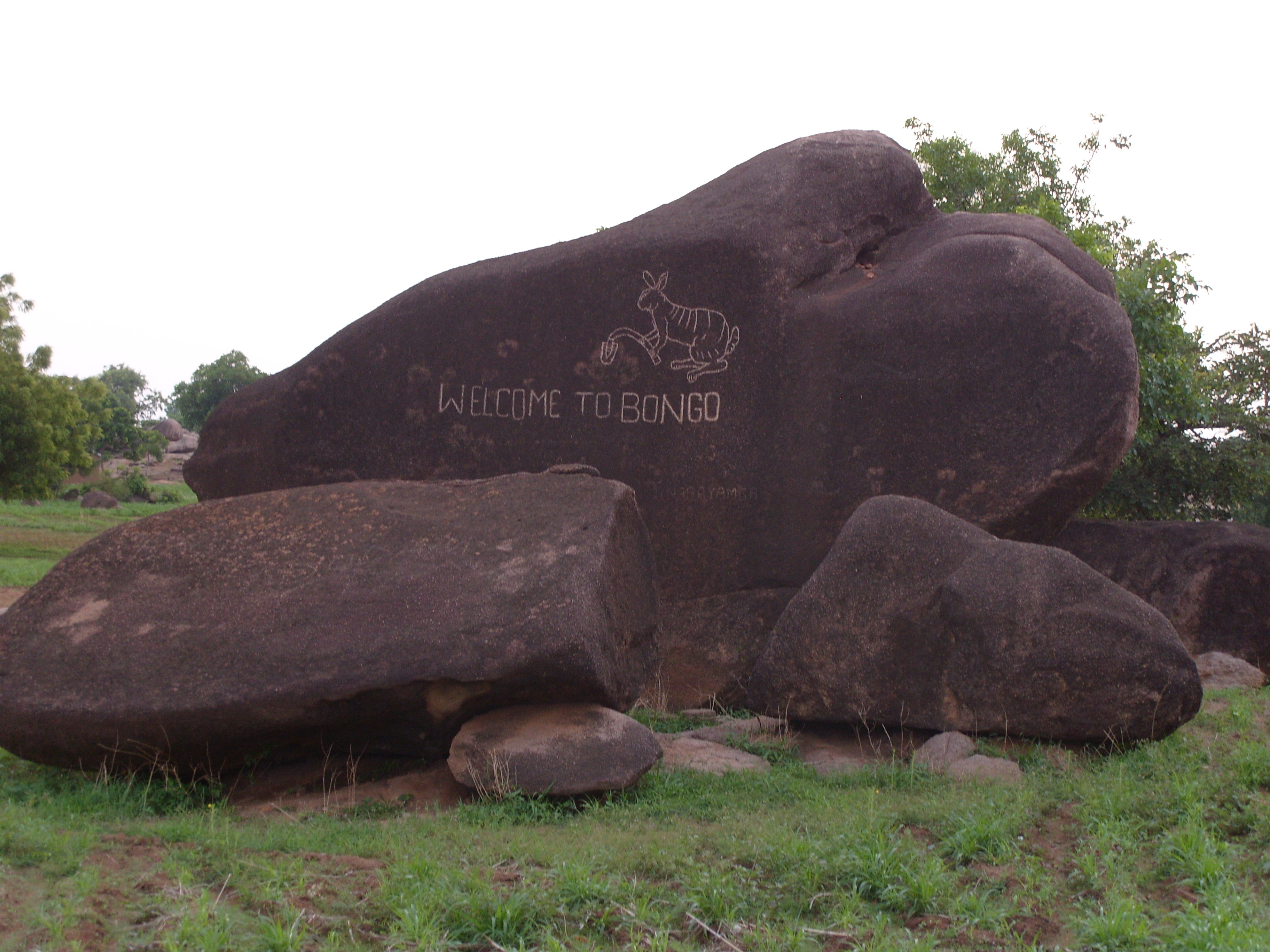 Bongo, near the city of Bolgatanga in the Upper East Region of Ghana